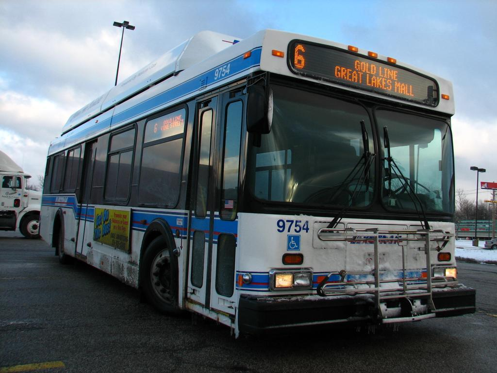 A 1997 New Flyer C35LF for Laketran